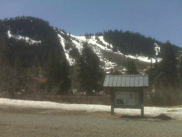 Ironhorse Trail information kiosk with Summit at Snoqualmie Pass Ski Area in background.